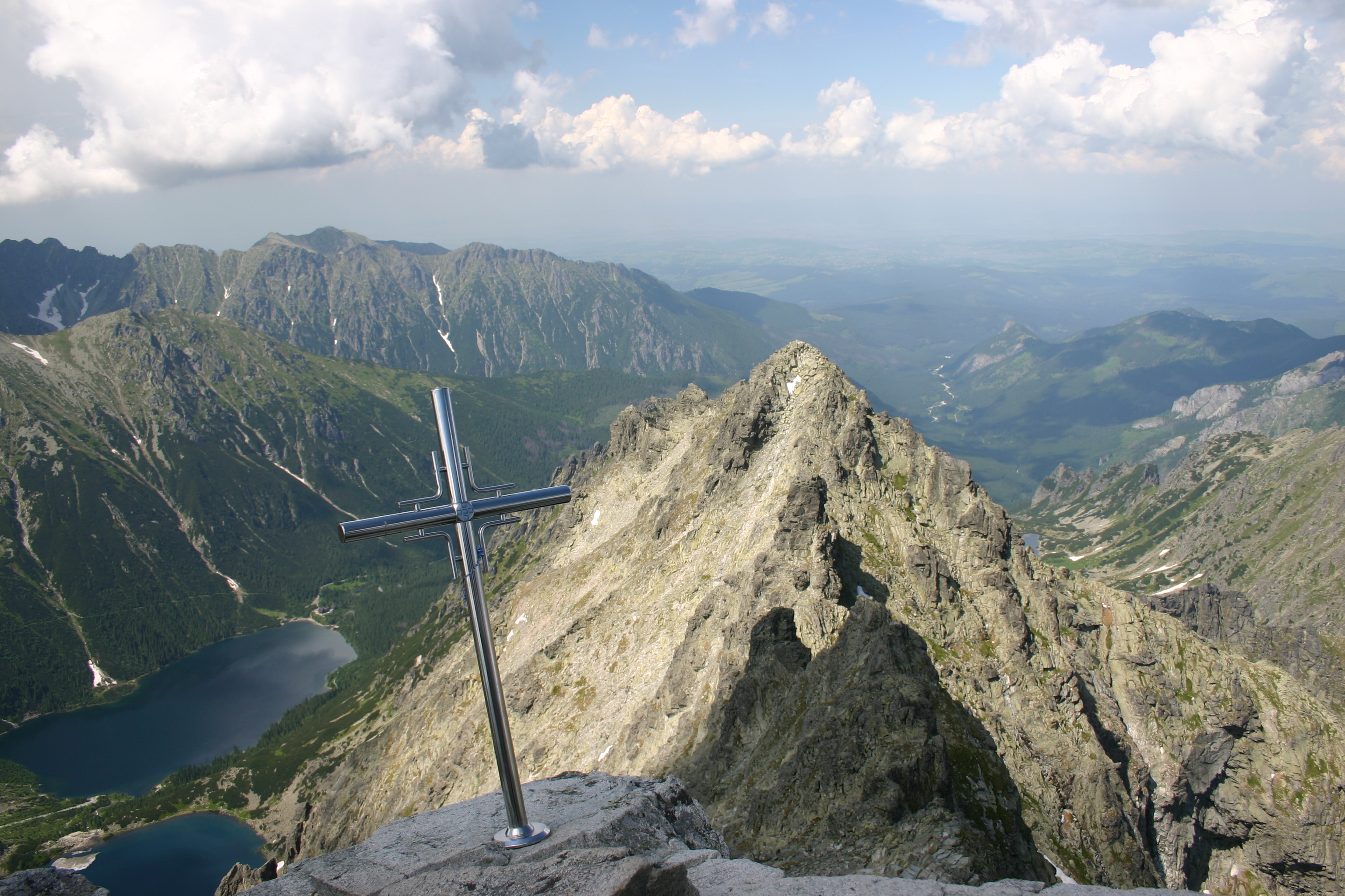 The cross on the Rysy mountain, which was founded in honor of 100-year anniversary of Tatrzańskie Ochotnicze Pogotowie Ratunkowe.